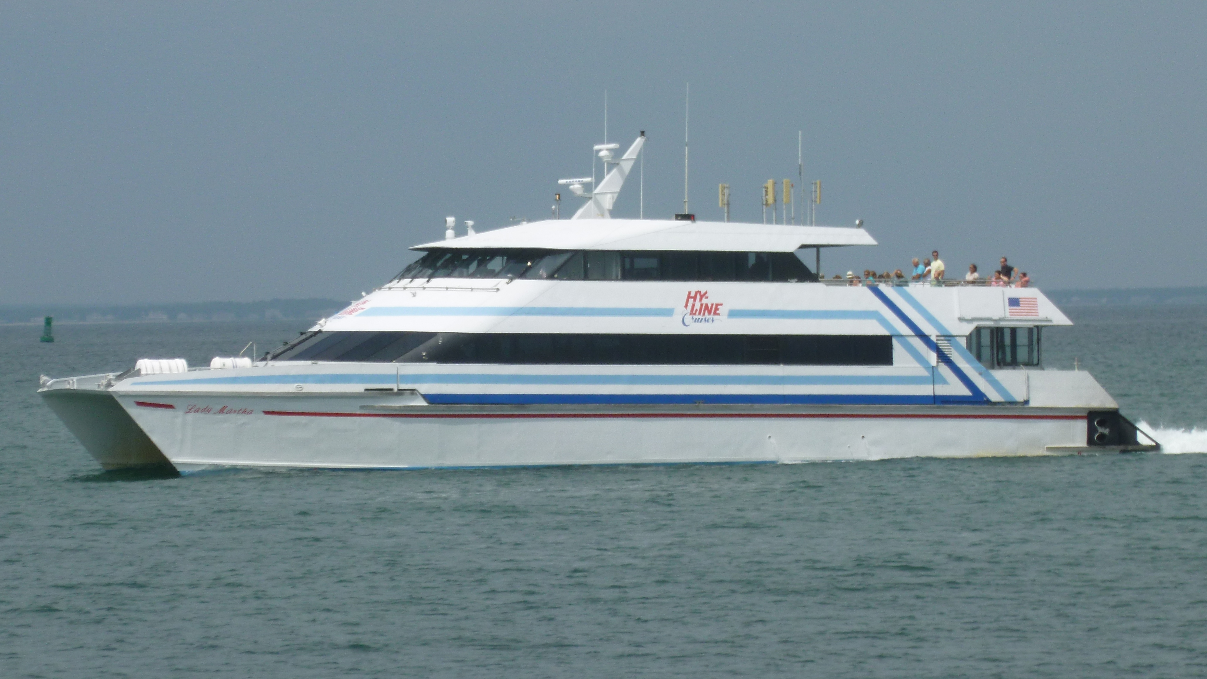 The high speed ferry Lady Martha, seen on 17 August 2014.